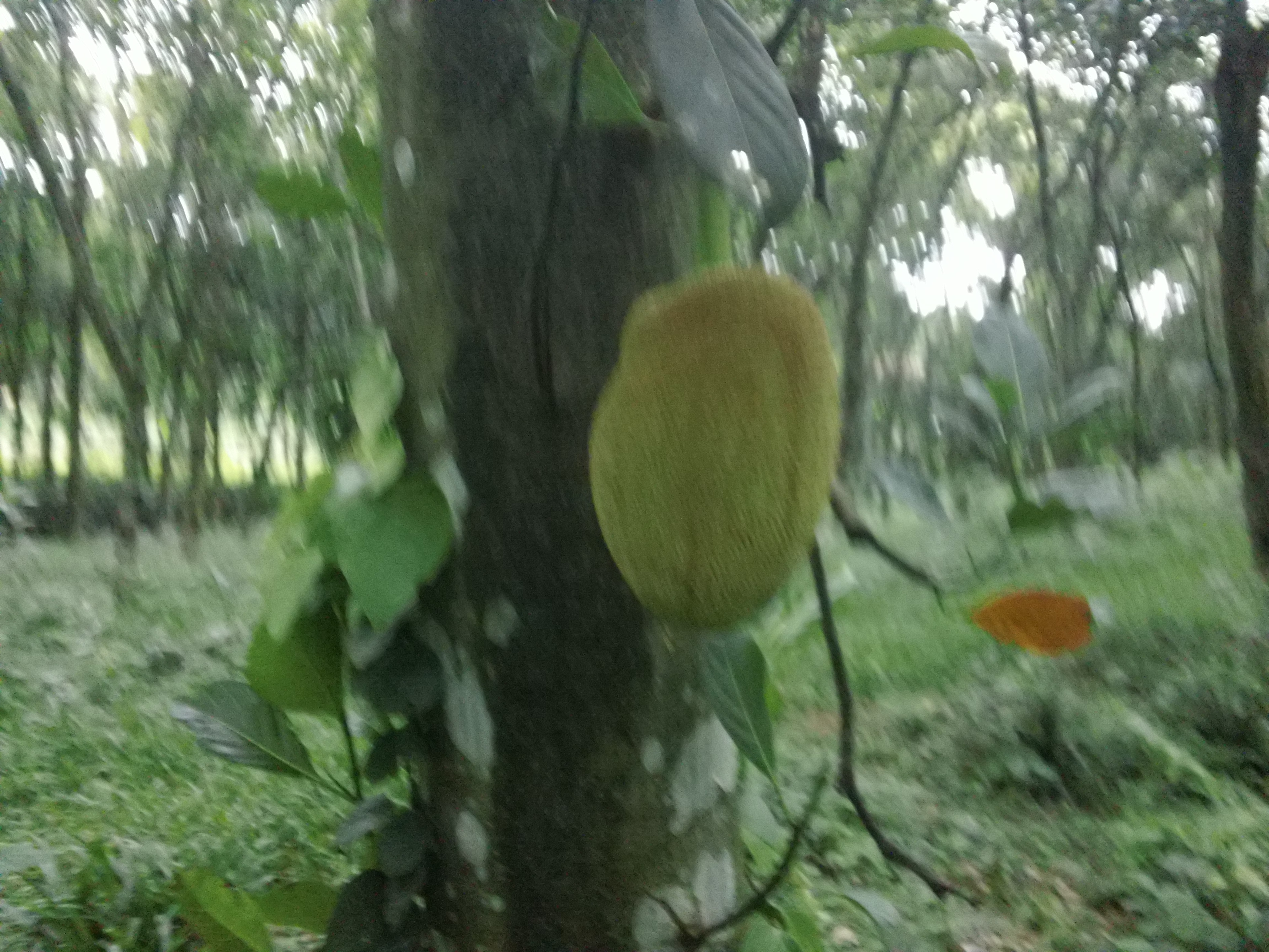 Ready for picking???